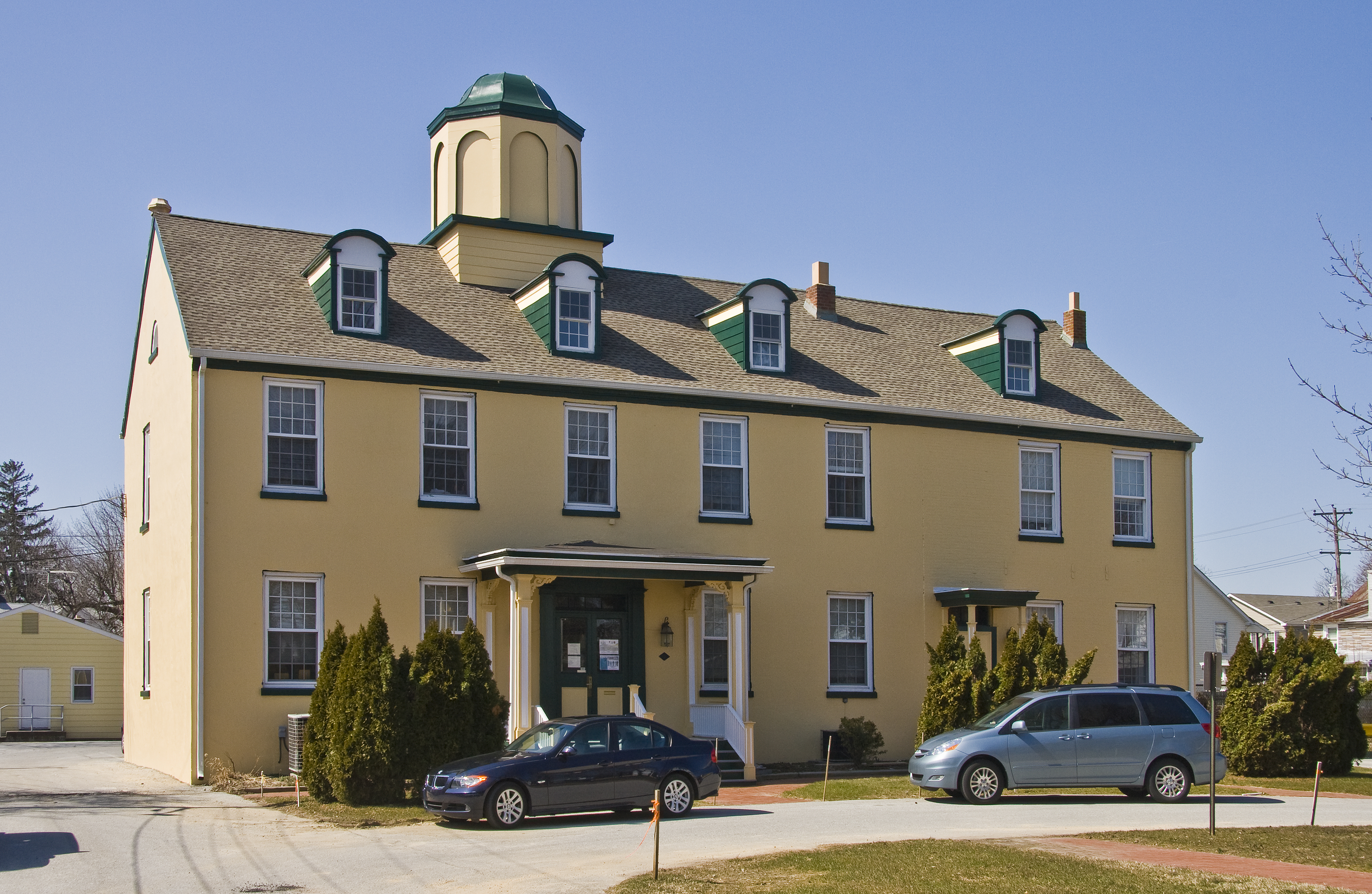 The Middletown Academy, 218 N. Broad Street, Middletown, Delaware, USA